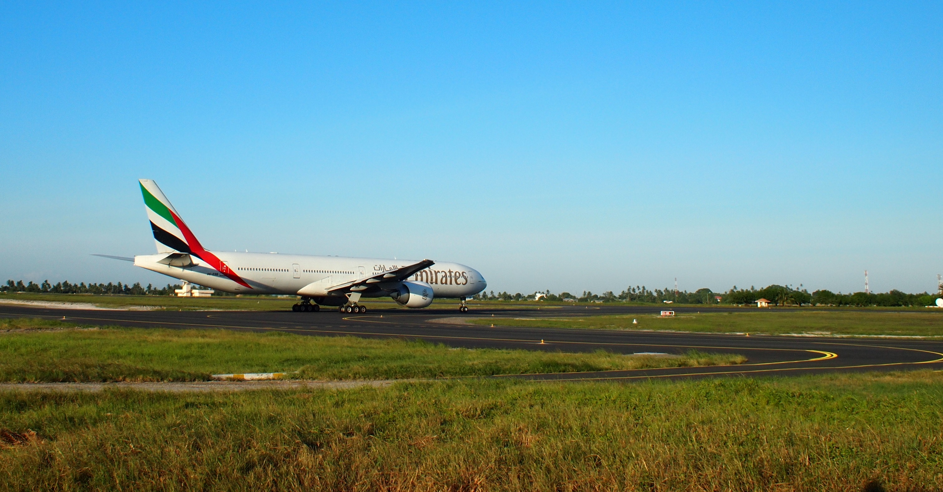 Emirates aircraft at the Julius Nyerere International Airport